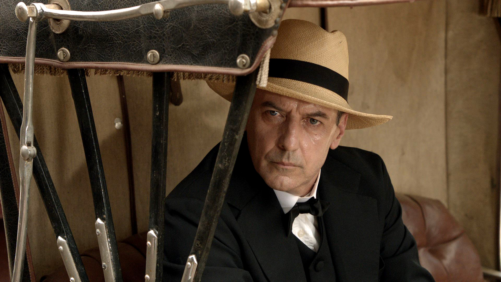 Screenshot from the film Die Wonderwerker